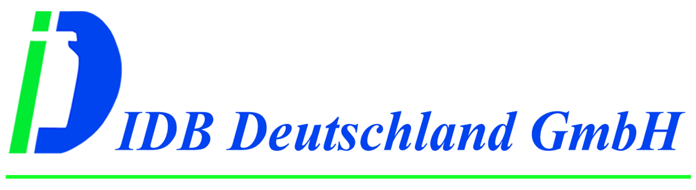 IDB Deutschland Logo